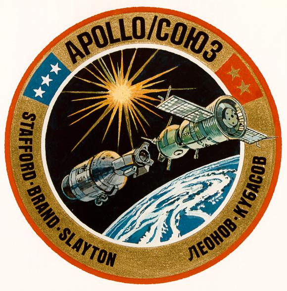 American crew patch for the Apollo-Soyuz Test Project (ASTP)[1]